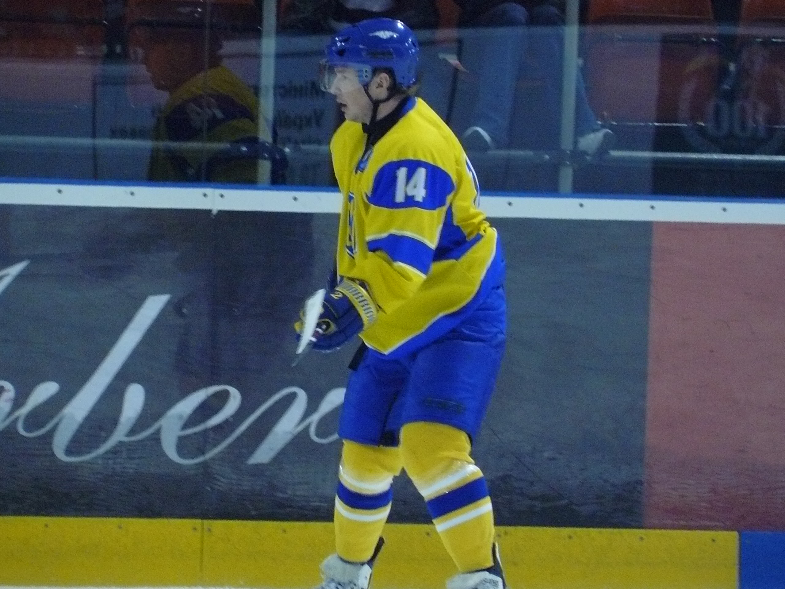 Defender Yuriy Navarenko #14 of the Ukraine during the friendly game against the Poland on April 10, 2010 at the Terminal Arena in Brovary, Ukraine. Ukraine won the game 2:1.